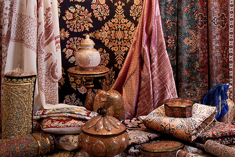 Persian HC